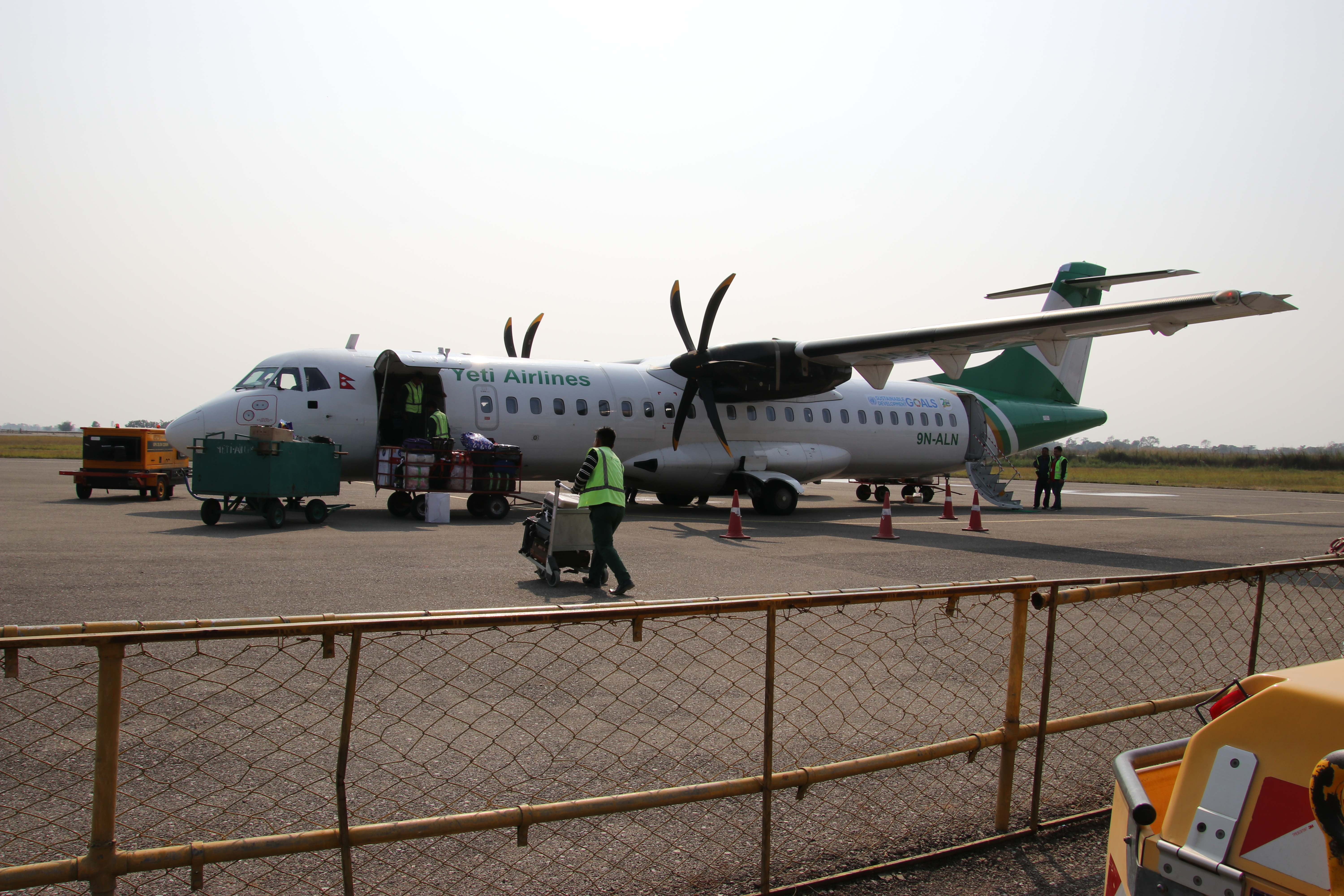 An ATR 72-500 aircraft operated by Yeti Airlines with the registered tail no of 9N-ALN. The aircraft operates the domestic flights between Kathmandu and Bhairahawa. The photograph is taken in Gautam Buddha Airport, Bhairahawa, Nepal, which is in progress for upgrading to Nepal's second international airport.